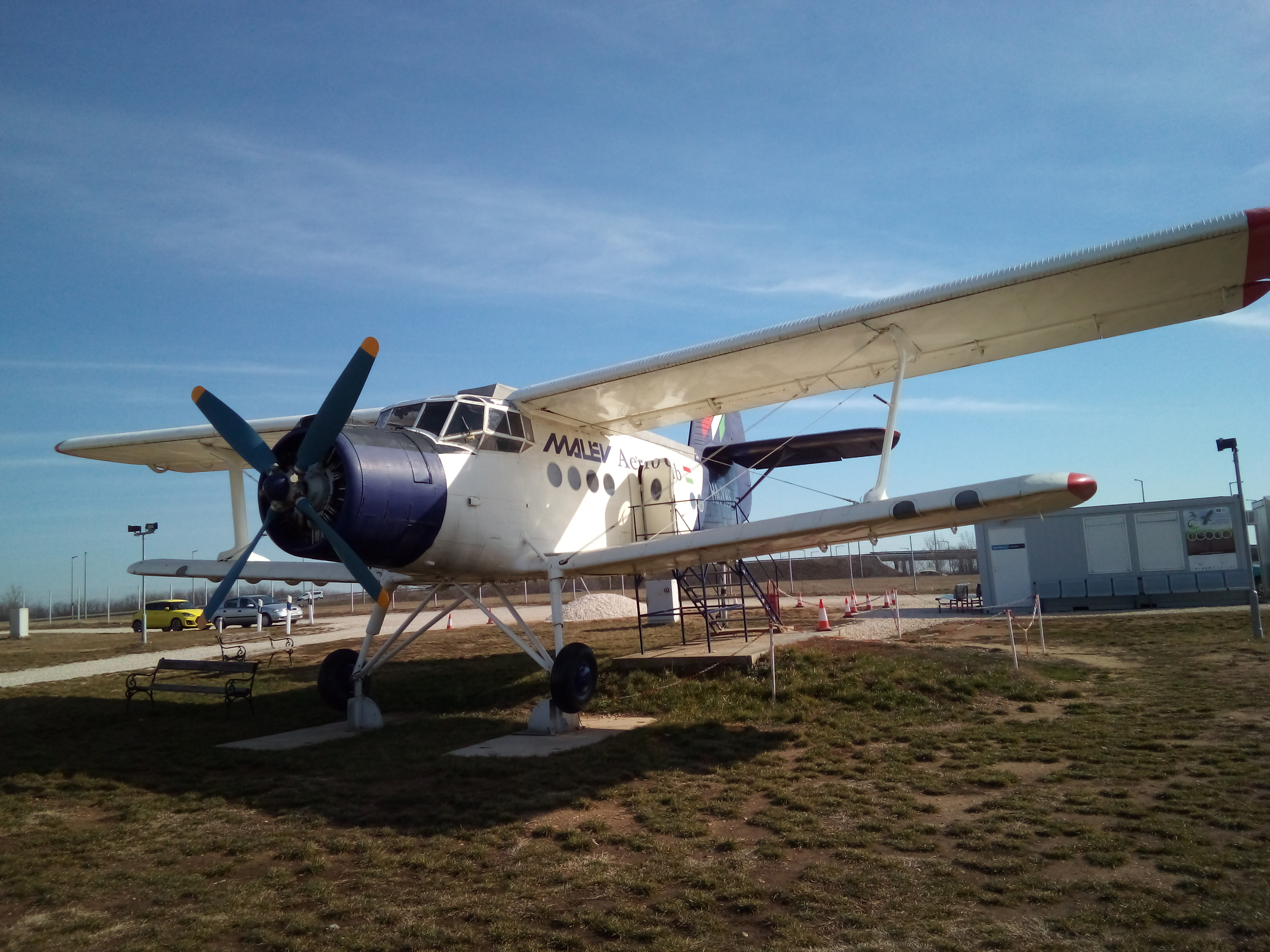 Antonov An-2R